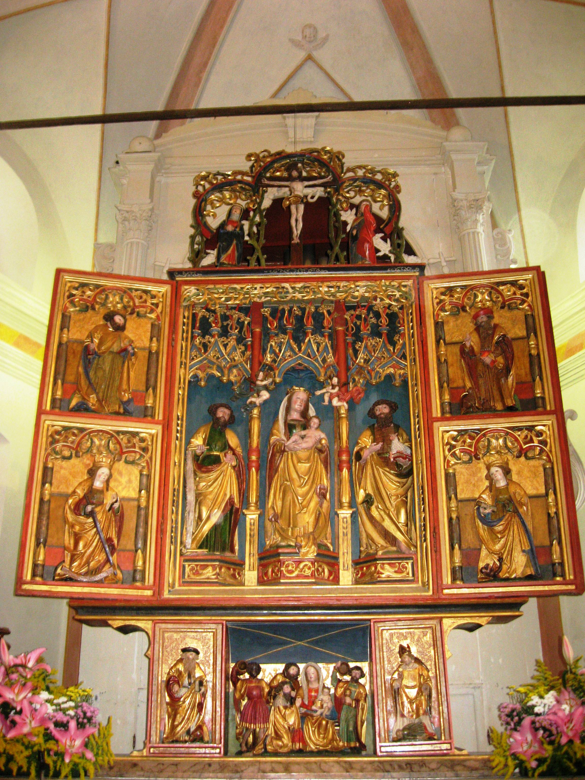 The high altar of 1525 by Andrè Haller and colloboratori in the Church of St. Simon to Vallada Agordina, Belluno, Italy